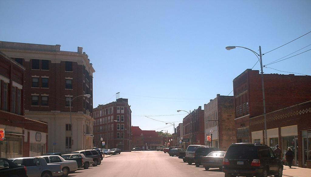 Looking south down KiHeKah Ave. towards the Triangle Building in the Central business district of Pawhuska.